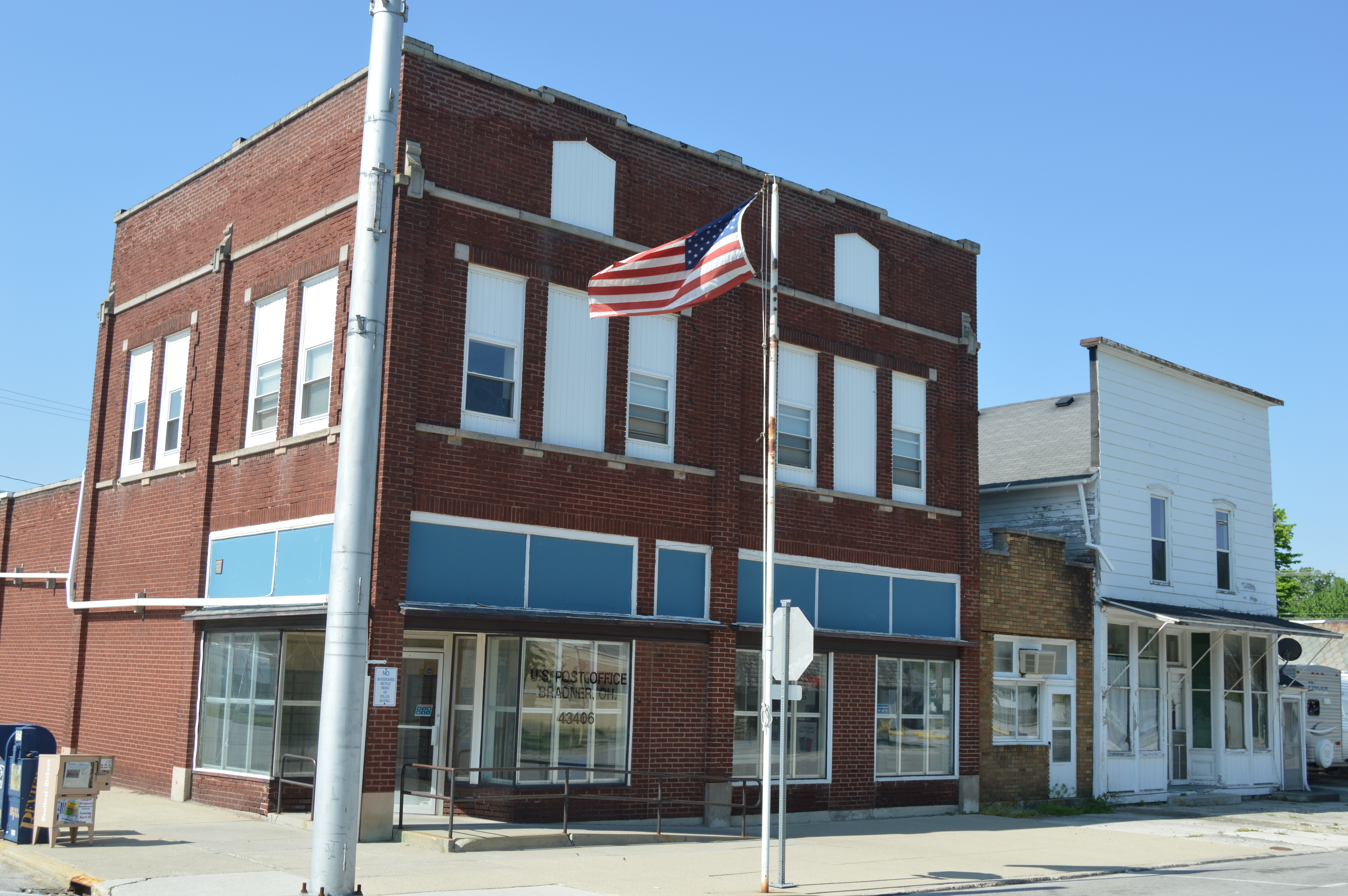 Buildings on the southern side of Crocker Street, seen looking west from Main Street, in Bradner, Ohio, United States.